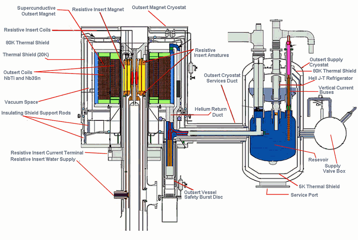 Image created by user from existing diagram with many changes. Some sections may look identical however they have to so that accuracy of object is displayed. This diagram is less detailed than the diagram from the NHMFL.